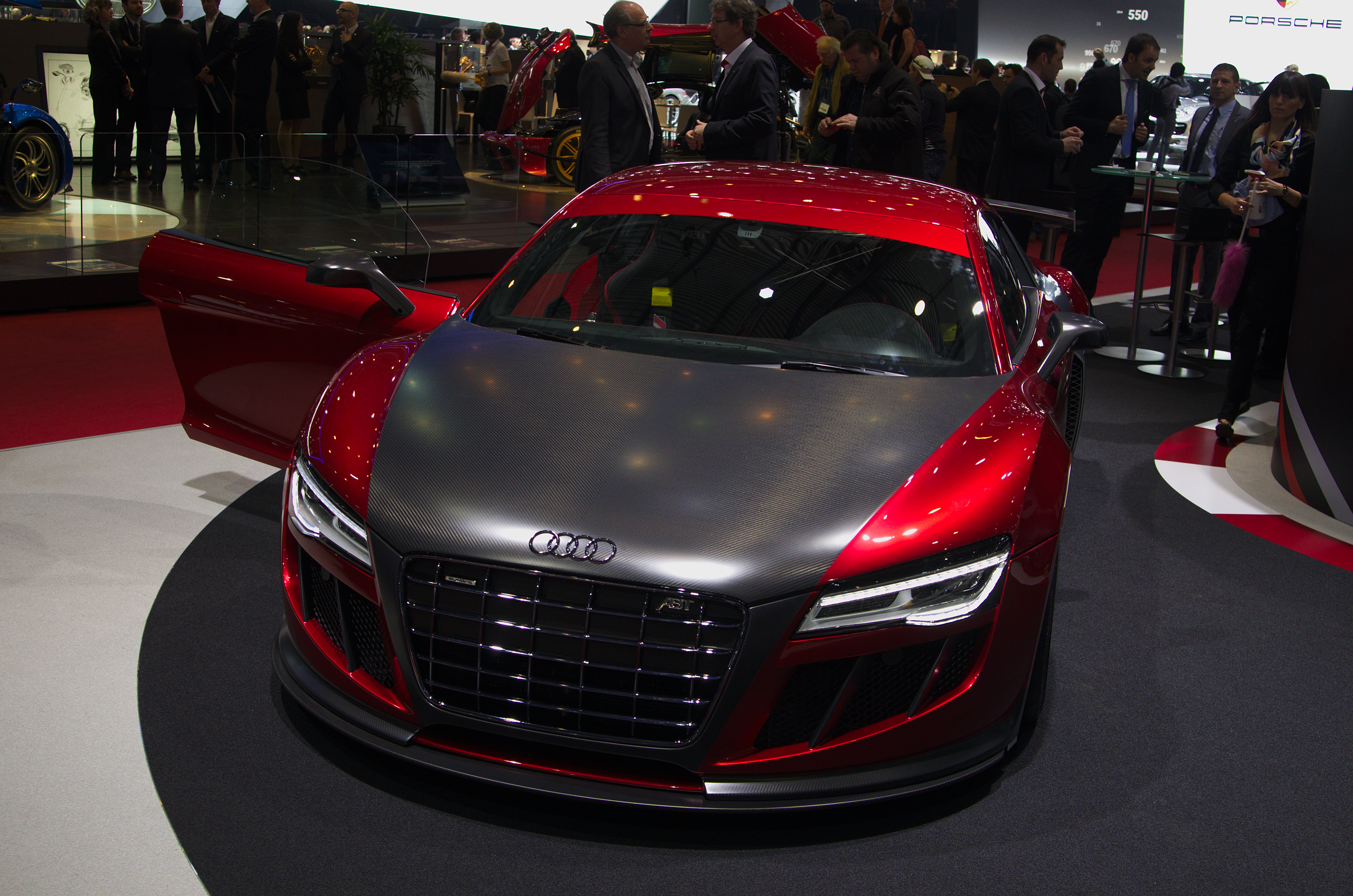 Geneva MotorShow 2013 - Audi R8 GTR ABT front